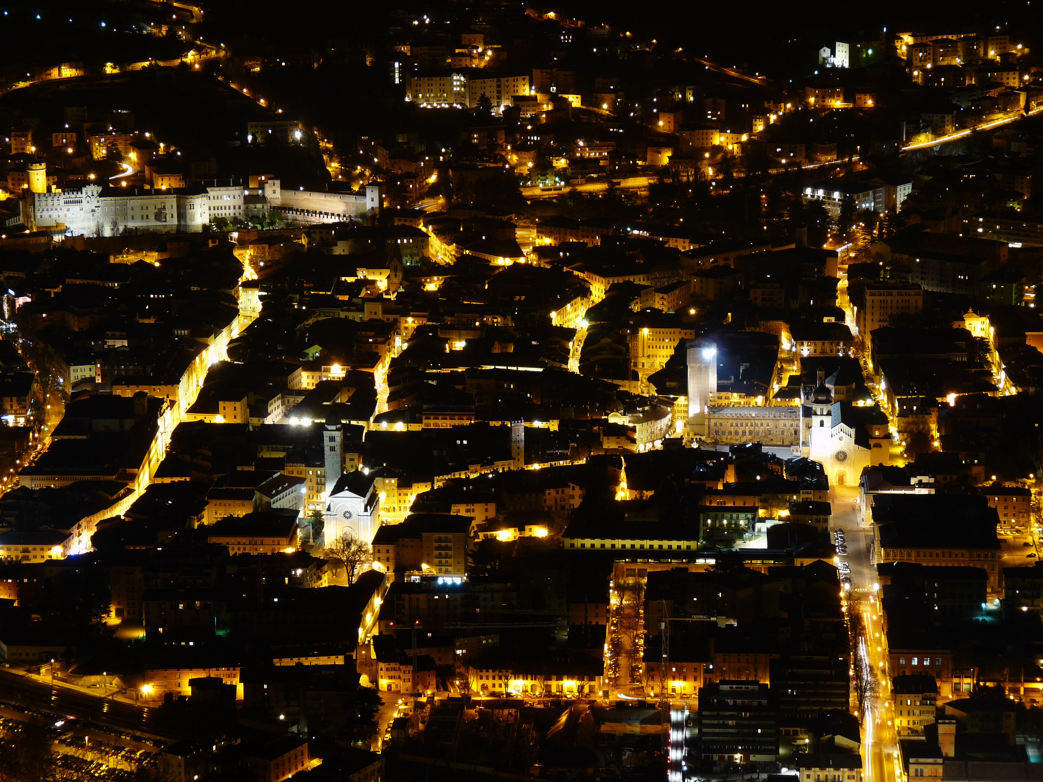 Trento (Italy): detail of panoramic view from Sardagna by night.